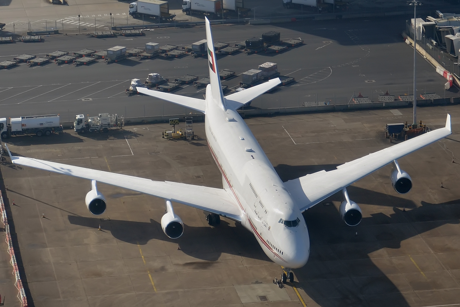 Boeing 747-400 of Dubai Air Wing at London Heathrow Airport